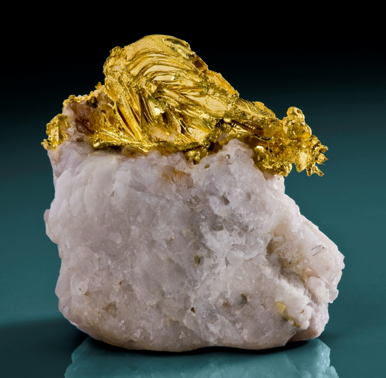 Gold Locality: Mockingbird Mine (Talc & Lacy claim), Whitlock, Whitlock District, Bagby-Mariposa-Mount Bullion-Whitlock District, Mariposa County, California, USA (Locality at ) Size: 4.0 x 3.7 x 3.3 cm. This is, to me, a very unique specimen featuring the largest, well-crystallized, 3-dimensional spinel twin gold on matrix that I have ever seen available. This is not a flattenned crystalline gold as with Eagle's Nest material and it is not a typical octahedral crystal or cluster of such as some Mockingbird material occurs. Rather, this is a single thick, euhedral crystal, fully 3.5 cm tip-to-tip, just so nicely perched on a well-trimmed matrix. This crystal has a natural patina as the enclosing quartz was removed with physical means instead of the less elegant but easier method of hydrofluoric acid. It is complete-all-around and is equally fine from the other side. Ex. late Bill Forrest Collection: a longtime California collector, gold-miner, and co-owner of the Benitoite mine during much of its modern heyday. Photo on green background, by Joe Budd.